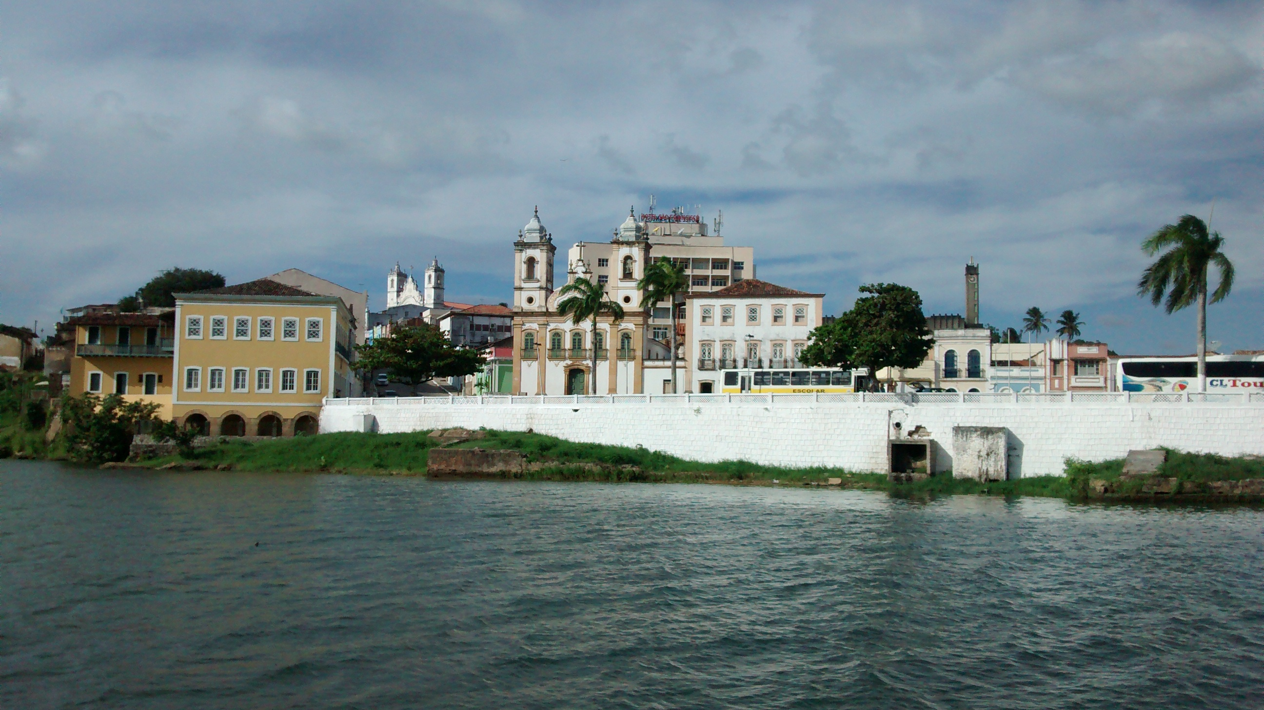 Architectural Complex of Penedo